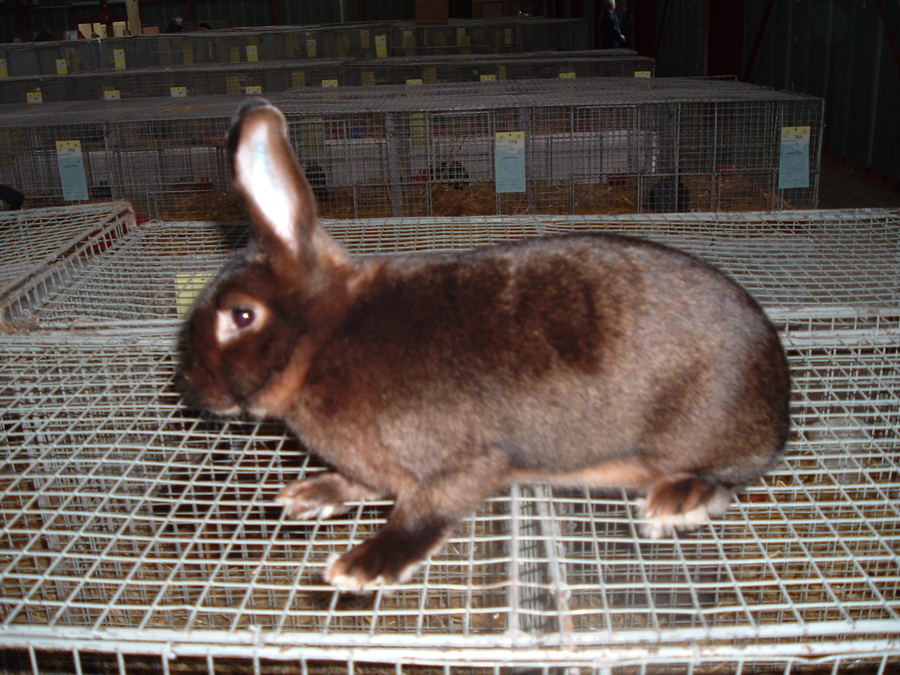 Satin Rabbit, color: castor